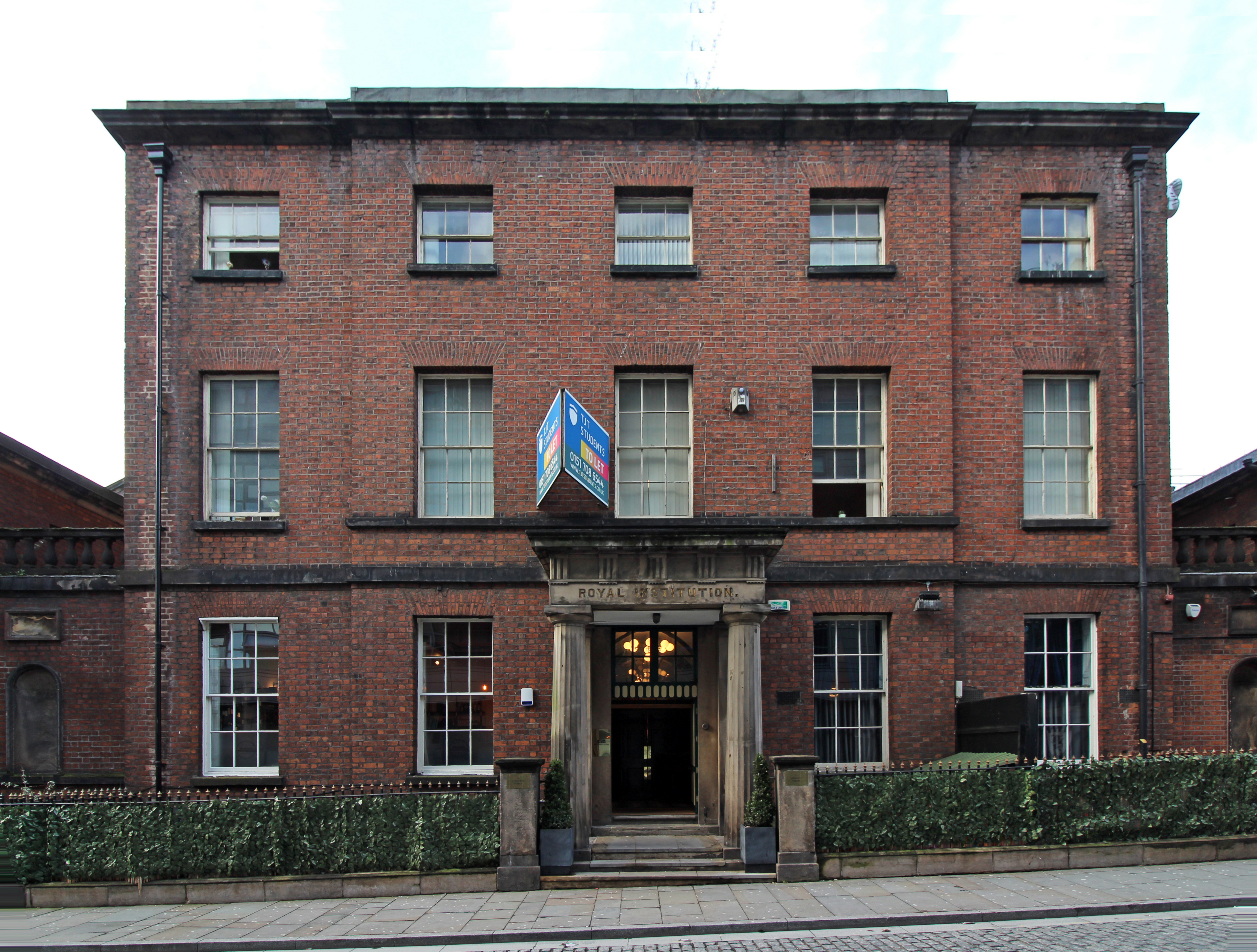 Grade II listed house on Colquitt Street, built c. 1799 for Liverpool merchant Thomas Parr; became the Liverpool Royal Institution in 1817. Adjoining Nos. 22 & 26 Colquitt Street are part of the listing.